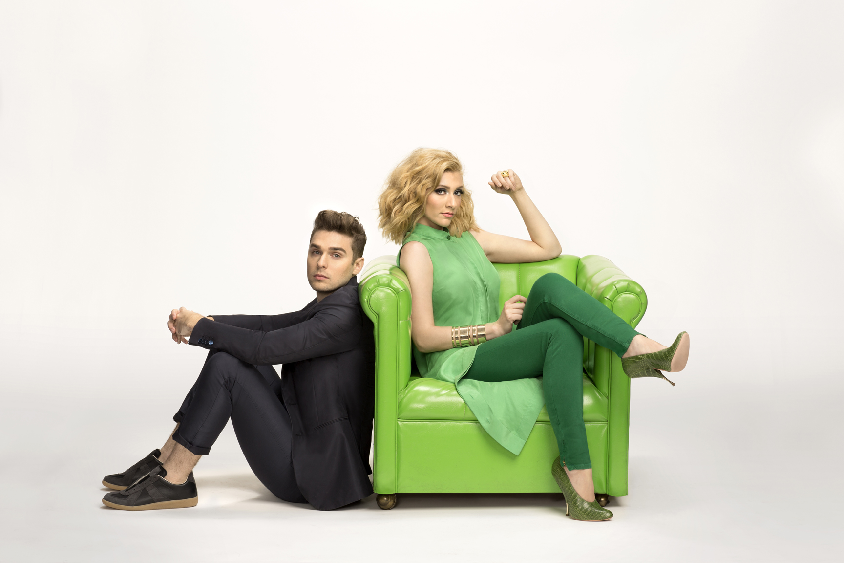 Musical group Karmin